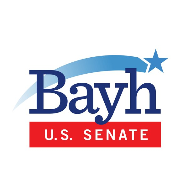 Evan Bayh campaign logo